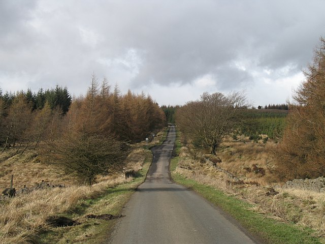 National Cycle Route 1 - Lochornie A short descent to a bridge over the Lochornie Burn gives a break in the long climb to the Heights of Craigencrow, a nearly 300m pass over the Cleish Hills.